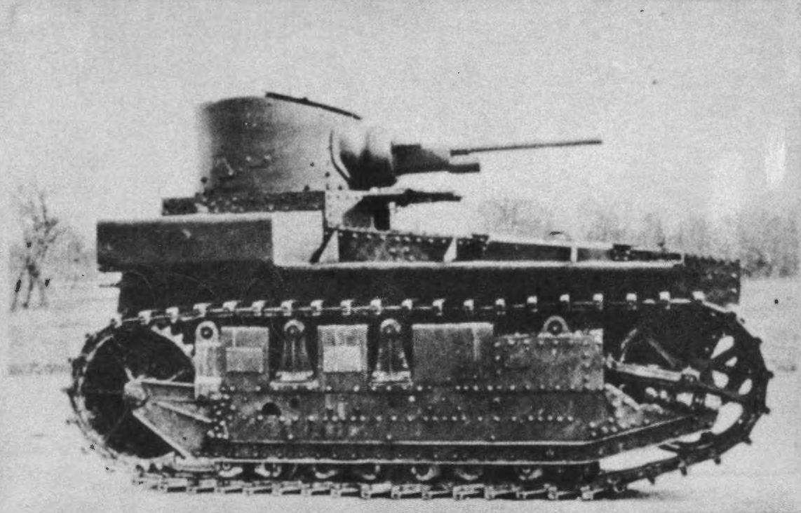 The Light Tank, T1E3, a U.S. Army light tank built in 1930 by modifying a T1E1. This tank carries the same 37 mm long-barreled Browning semi-automatic gun that had been used by the preceding T1E2. The driver's front hatch is open. Unlike previous T1 versions, which had unsprung suspensions, the T1E3 had a new suspension with coil springs and hydraulic shock absorbers, though this feature is here obscured by armor plate.